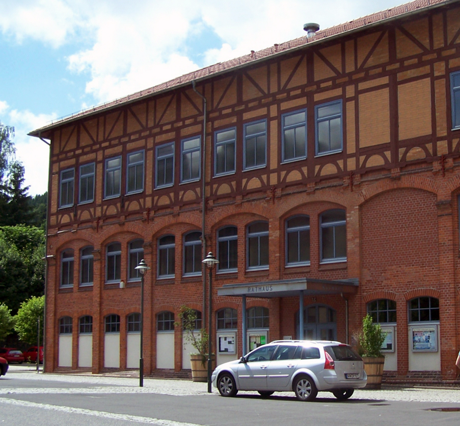 Ruhla, the town-hall.